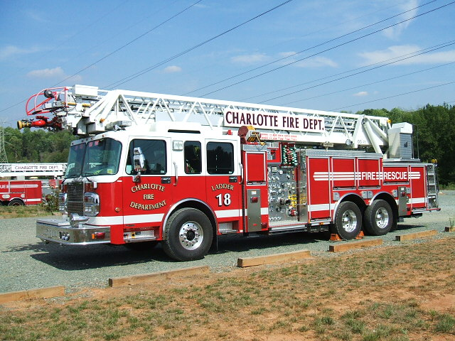 Ladder 18. Nickname The Wild Wild West. A reserve ladder is in the back left of the photo.